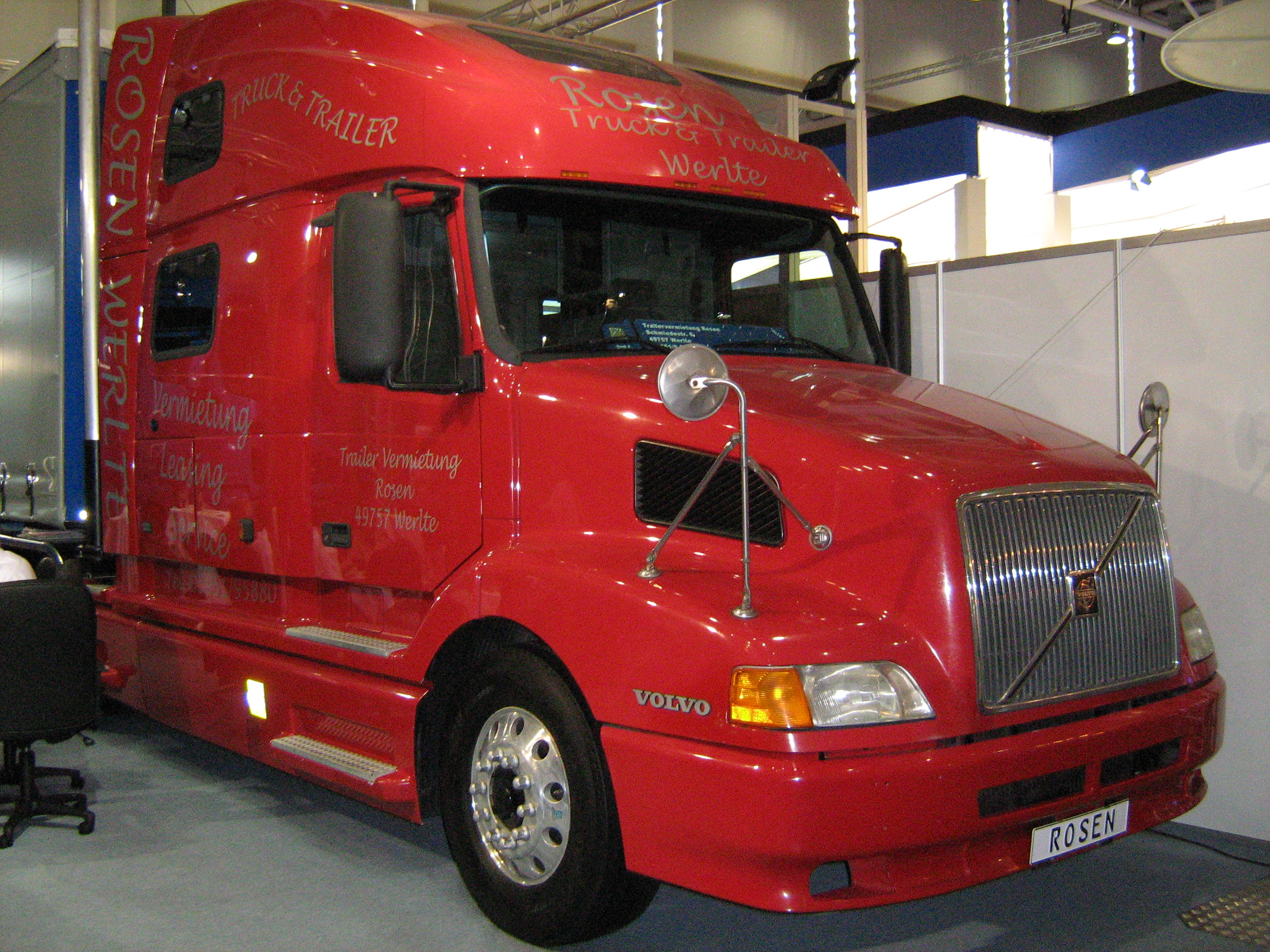 Volvo VNL64T770 early production 1996-2002